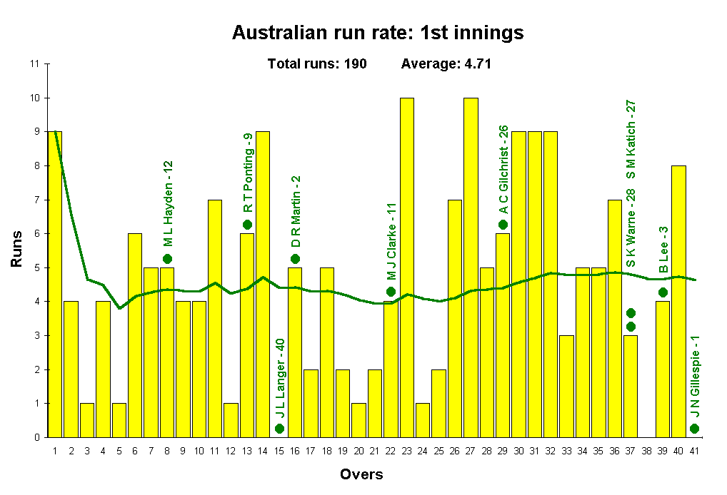 Graph shows the run rate for Australia's first innings in the first Test in the 2005 Ashes played at Lord's. Green dots signify the loss of a wicket with the batsmen out and their runs scored being shown above the dot. Graph made by User:Suicidalhamster using data from this source (Cricinfo)